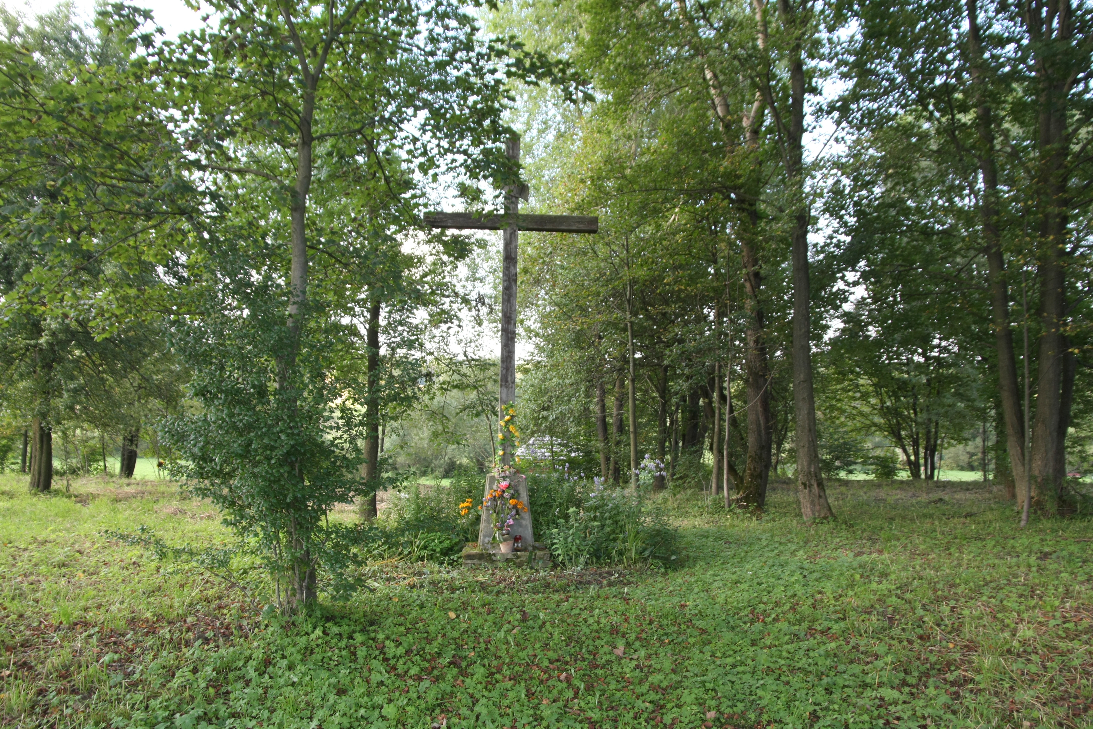 Place after church in Dźwiniacz Dolny.